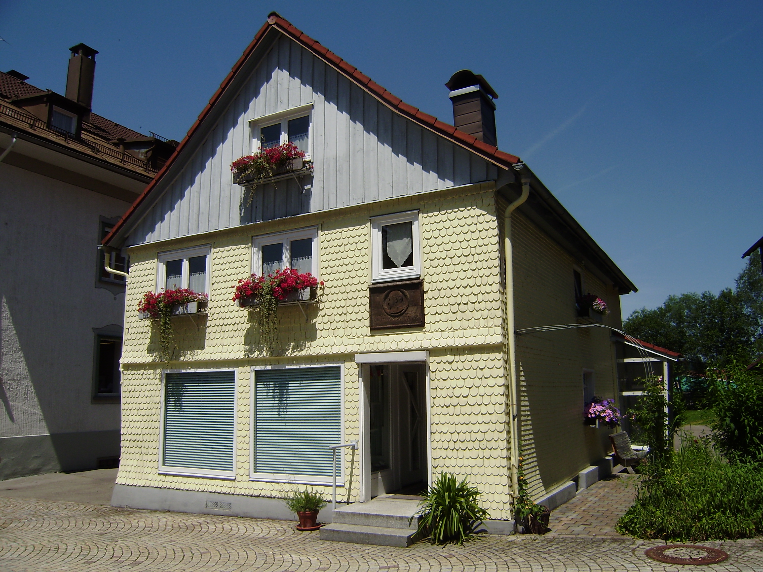 Elternhaus von Anton Schneider in Weiler im Allgäu, Bayern, Deutschland